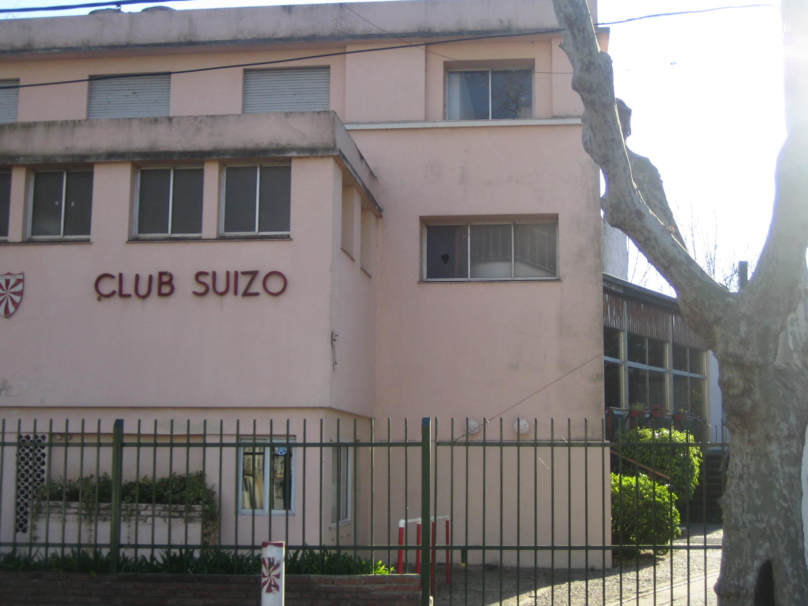 Club Suizo de Buenos Aires - El Tigre - Buenos Aires - Argentina